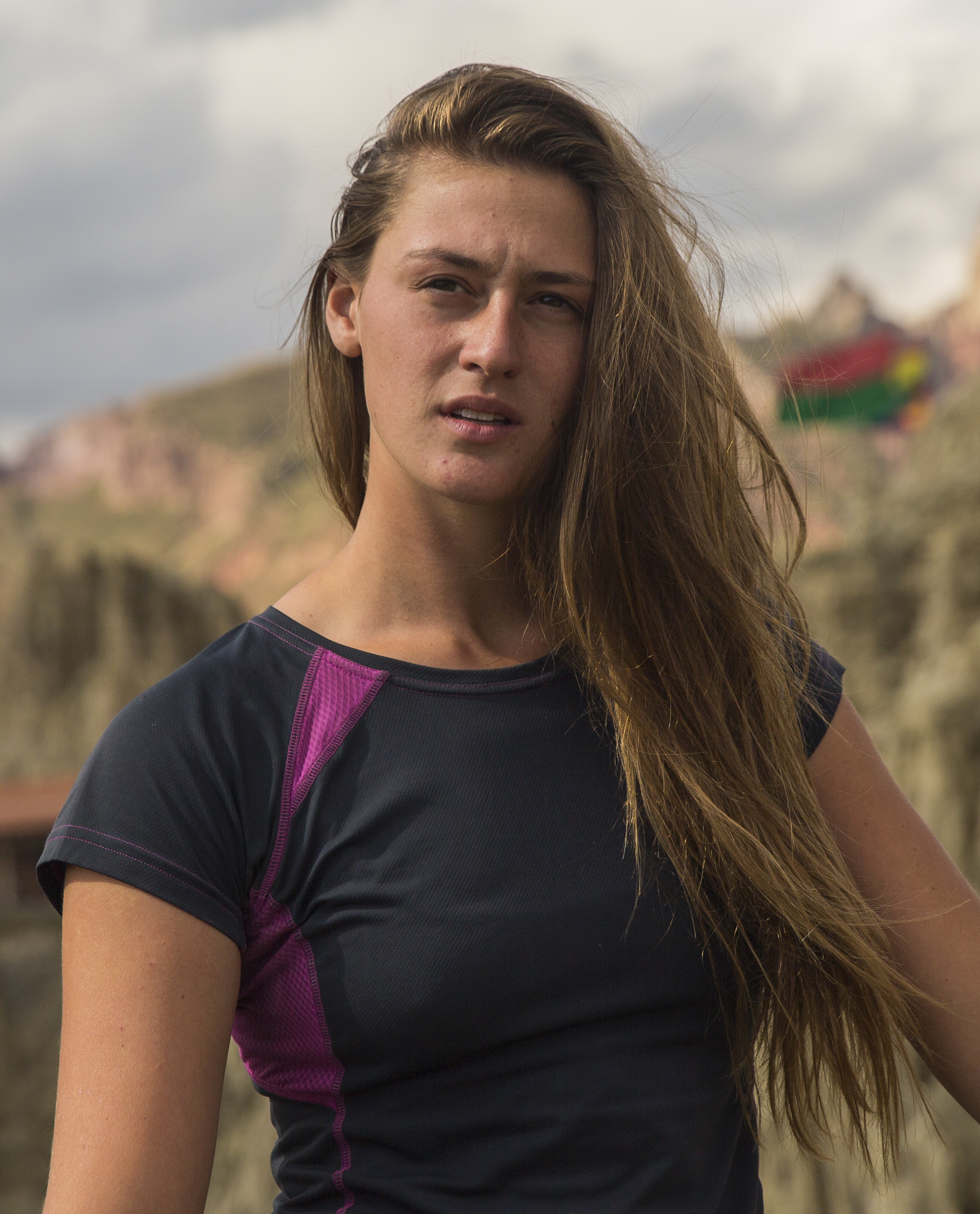 Laura Bingham whilst on her journey across South America